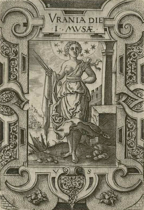 Muse Urania from the illustrations to Ovid by Virgil Solis (1562).